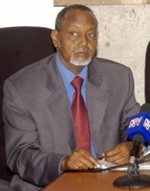 Hasan Muhammad Nur Shatigadud, former TFG Finance Minister of Somalia.